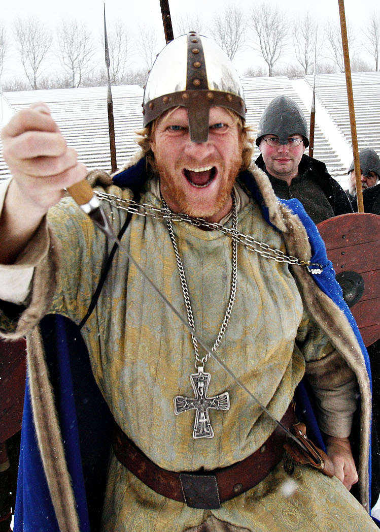 Norwegian actor Sven Nordin as king Olaf II of Norway in the The Saint Olav Drama at Stiklestad 2009